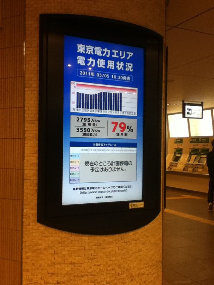 JR 恵比寿駅 Demand / Supply Electric consumption / Electric generation